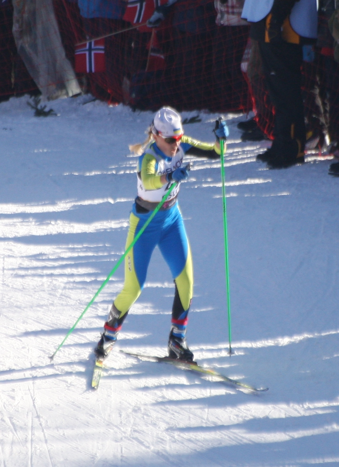 Maryna Antsybor (Ukraine), at 17 km in the women's 30 km, World Championships, Oslo 2011